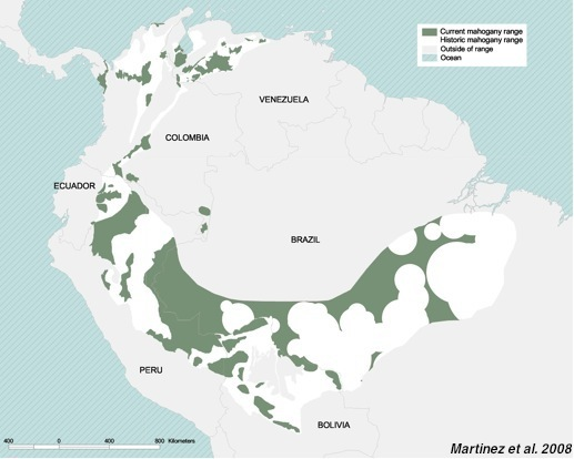 The current range of big-leaf mahogany in South America (